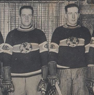 Odie and Sprague Cleghorn in the Montreal Canadiens team photo, 1924-25.